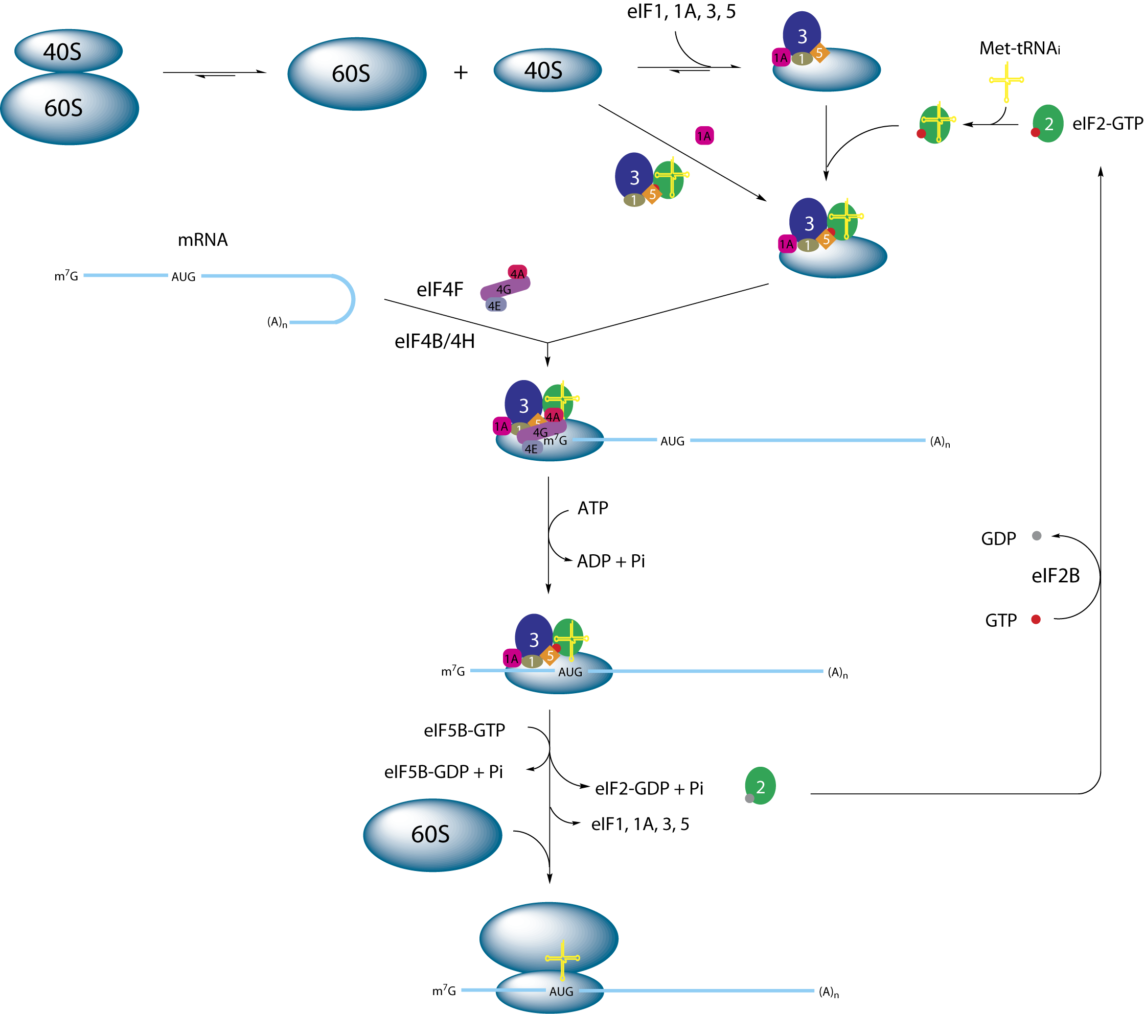 The scheme of cap-dependent eukaryotic translation initiation mechanism